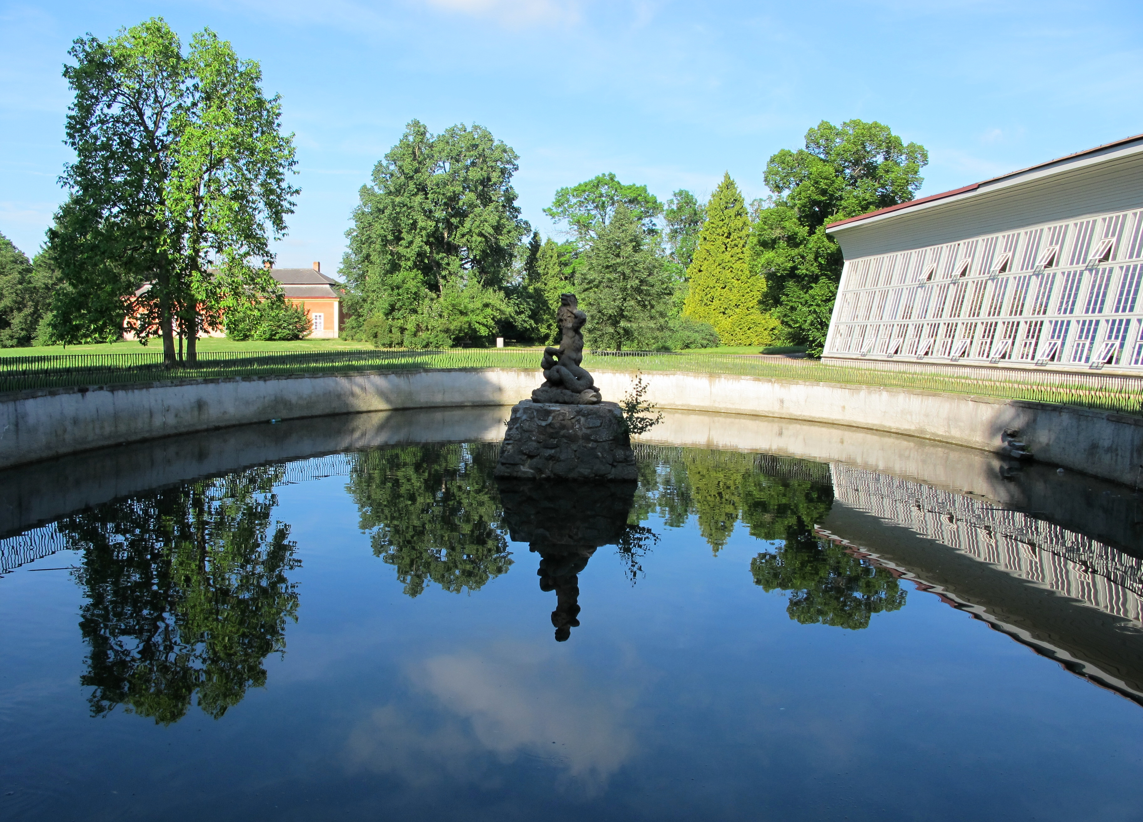 Dobříšský park is a park near Dobříš chateau, Příbram District